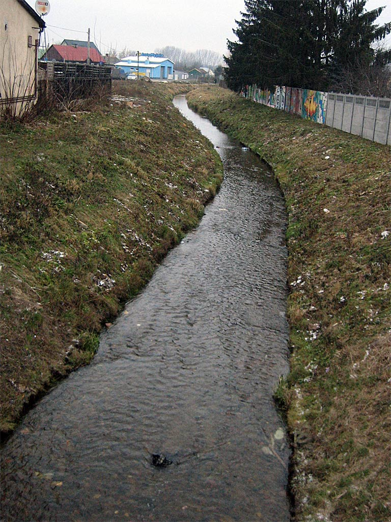 Krzna Południowa River in Łuków.